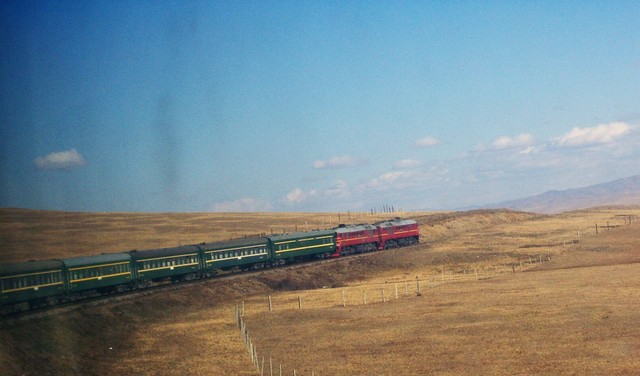 The Trans-Mongolian train 003 (K3次列车) from Beijing to Moscow passes through the Gobi Desert in Mongolia. Taken from out the train window as it rounded a curve! Photo by Matthew Mayer (myself), original at [1], taken 2005.